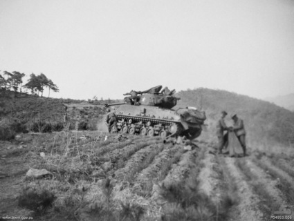 AWM Caption: An American M4A3E8 Sherman tank driving across a cultivated paddock on the low section of the island feature occupied by B Company, 3rd Battalion, The Royal Australian Regiment (3RAR). Four hours later, this area was the scene of heavy and bitter fighting. Two Australian soldiers behind the tank studying a map.